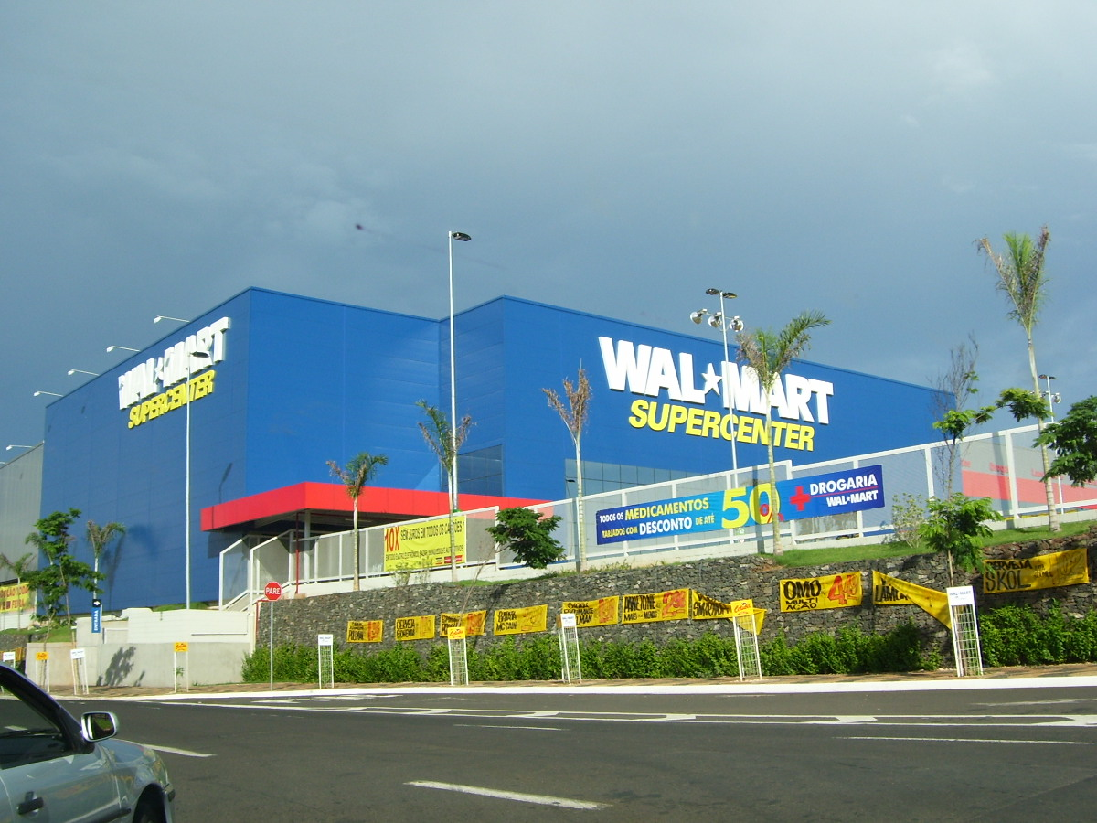 Wal-Mart Supercenter in São José do Rio Preto, state of São Paulo, Brazil.